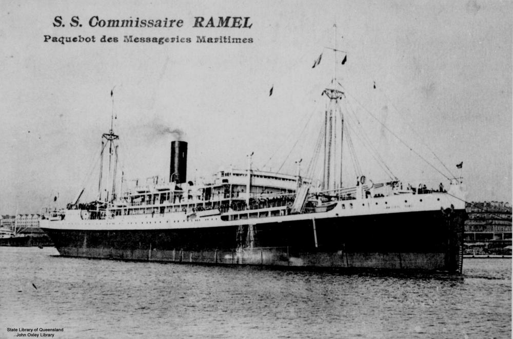 Messageries Maritimes' 10,061 GRT passenger liner Commissaire Ramel: built by Société Provençale de Constructions Navales at La Ciotat in 1920. She was sunk in the Indian Ocean by the German auxiliary cruiser Atlantis on 9 September 1940.